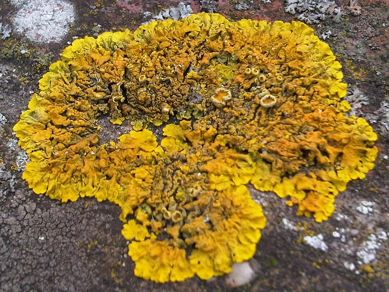 Common orange lichen, also known as yellow scale, maritime sunburst lichen and shore lichen (Xanthoria parietina) in London, England.